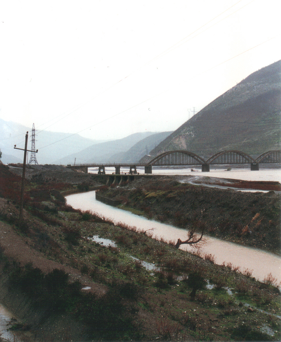 The old Bridge (1927) over the river Mat in Albania on a rainy day